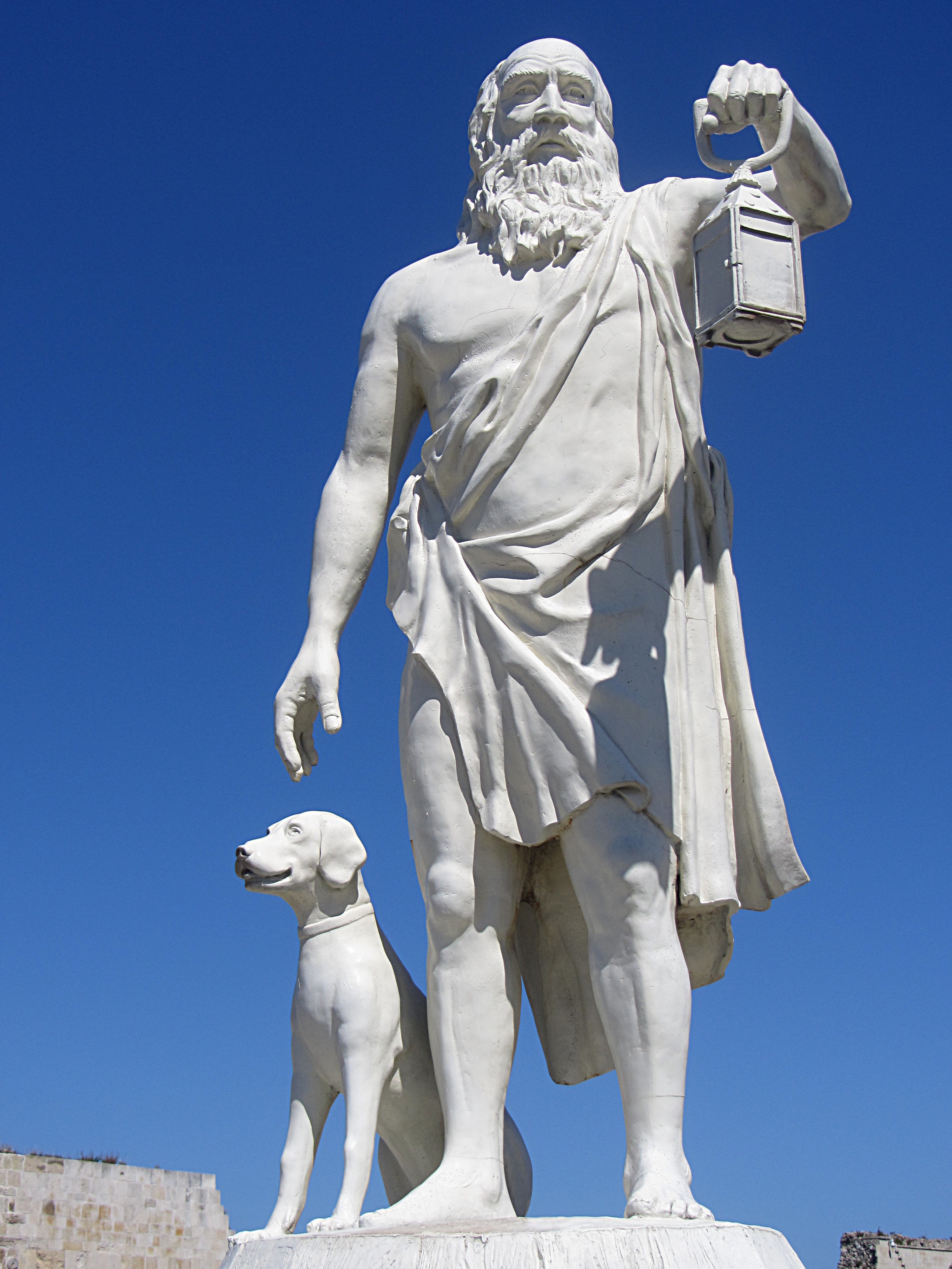 Statue of Diogenes in Sinop]